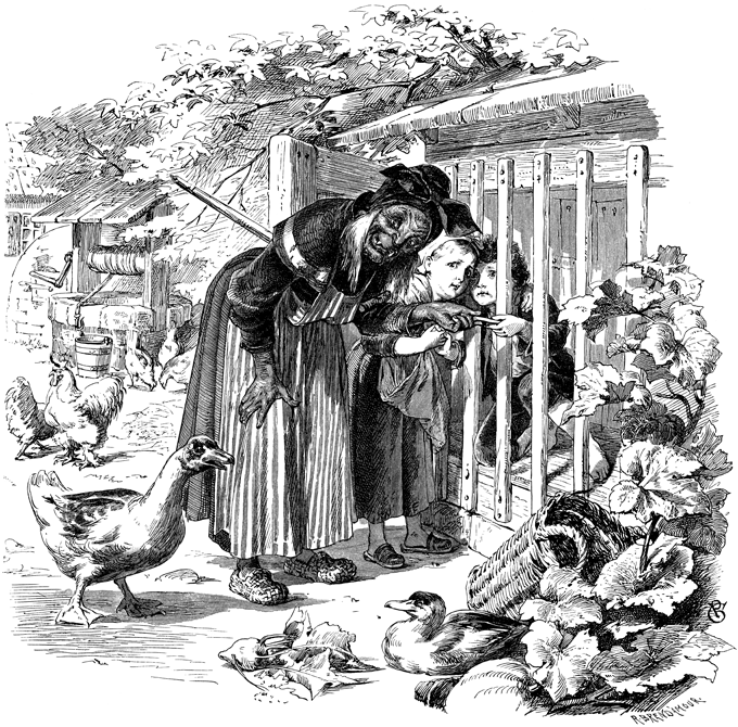 illustration of the Brothers Grimm fairy tale "Hansel_and_Gretel"